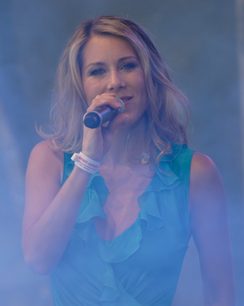 Simone Stelzer (Open Concert at subway opening U1, Vienna)